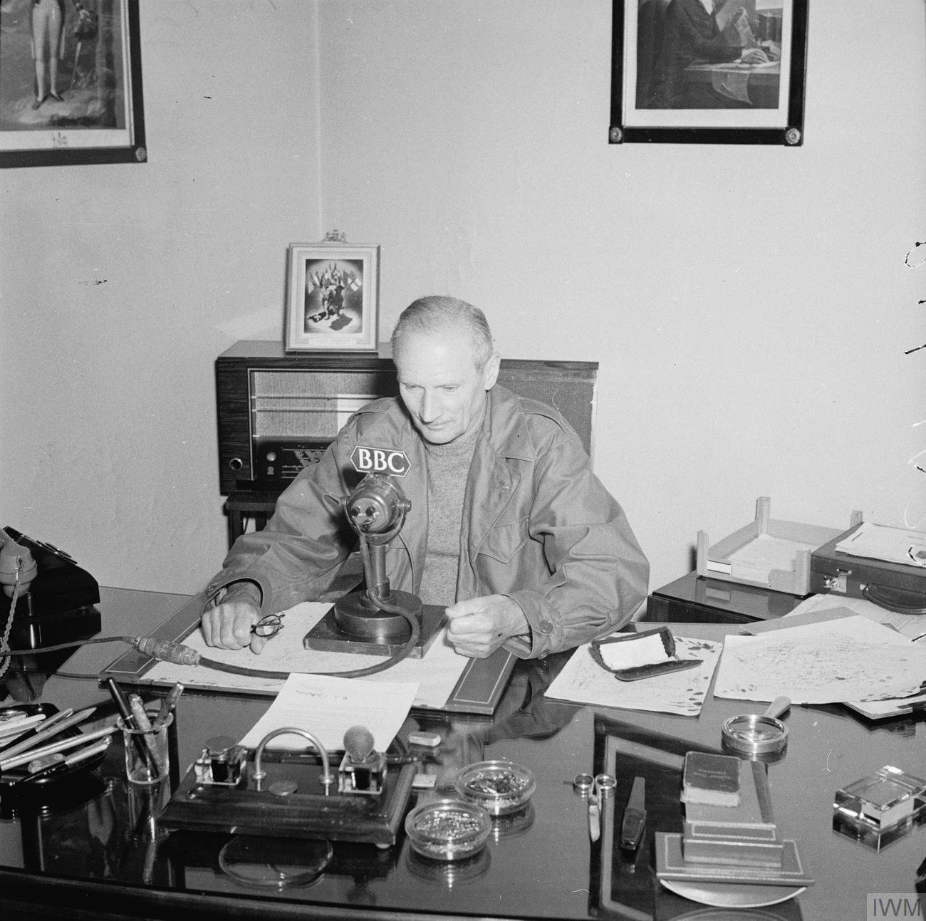 Field Marshal the Viscount Montgomery of Alamein Kg Gcb Dso 1887-1976 Montgomery behind a BBC microphone for the recording of a radio broadcast at Tac HQ, Ostenwalde, to mark the change over of BLA (British Liberation Army) to BAOR (British Army of the Rhine).